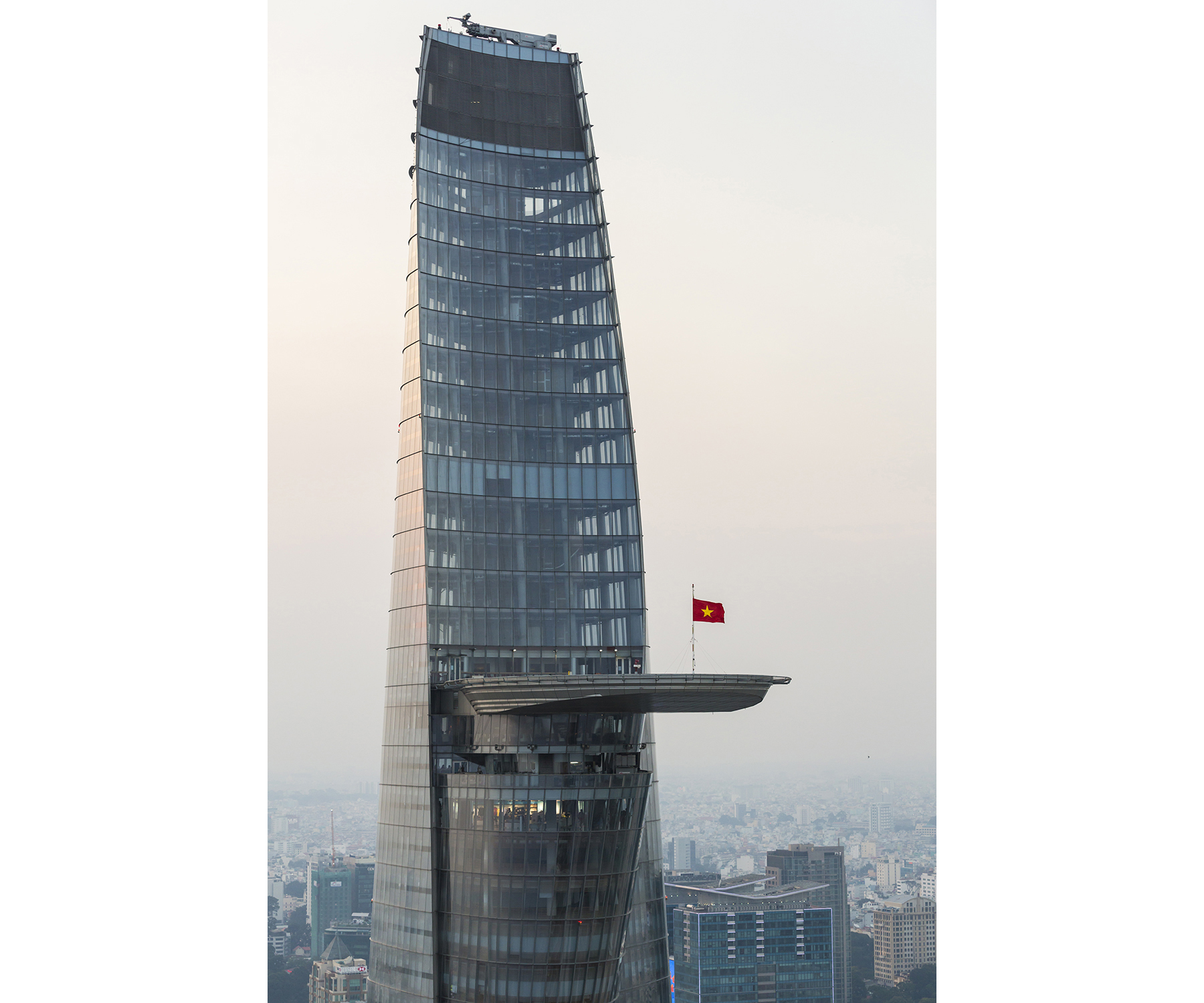 Close up of Helipad